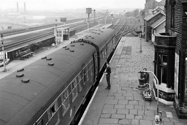 Bramley (Yorks.) Station. View WNW, towards Bradford; ex-GNR Leeds (Central - Bradford (Exchange) main line. Station closed to passengers 4/7/66, to goods 7/7/69, but rebuilt and reopened by West Yorkshire PTE 12/9/83. (A 'vintage' DMU bound for Leeds is at the platform).